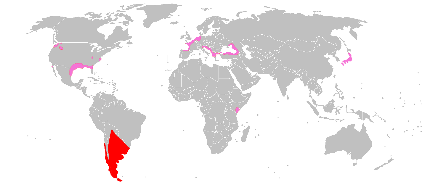 Distribution map of Myocastor coypus. Original zone (red) and zone where it has been introduced (pink).